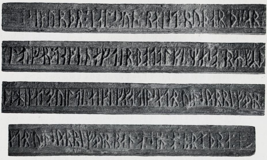 The runic inscription of Sigurd Jarlsson (1194) from the Vinje stave church, Telemark.